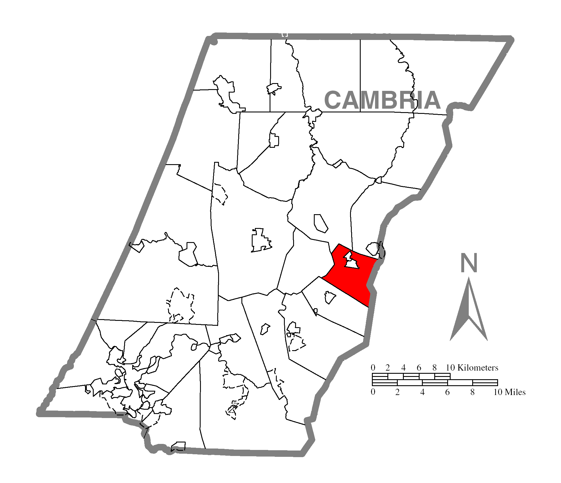 A map of Cambria County showing Cresson Township, Pennsylvania (alternate) highlighted on the map.